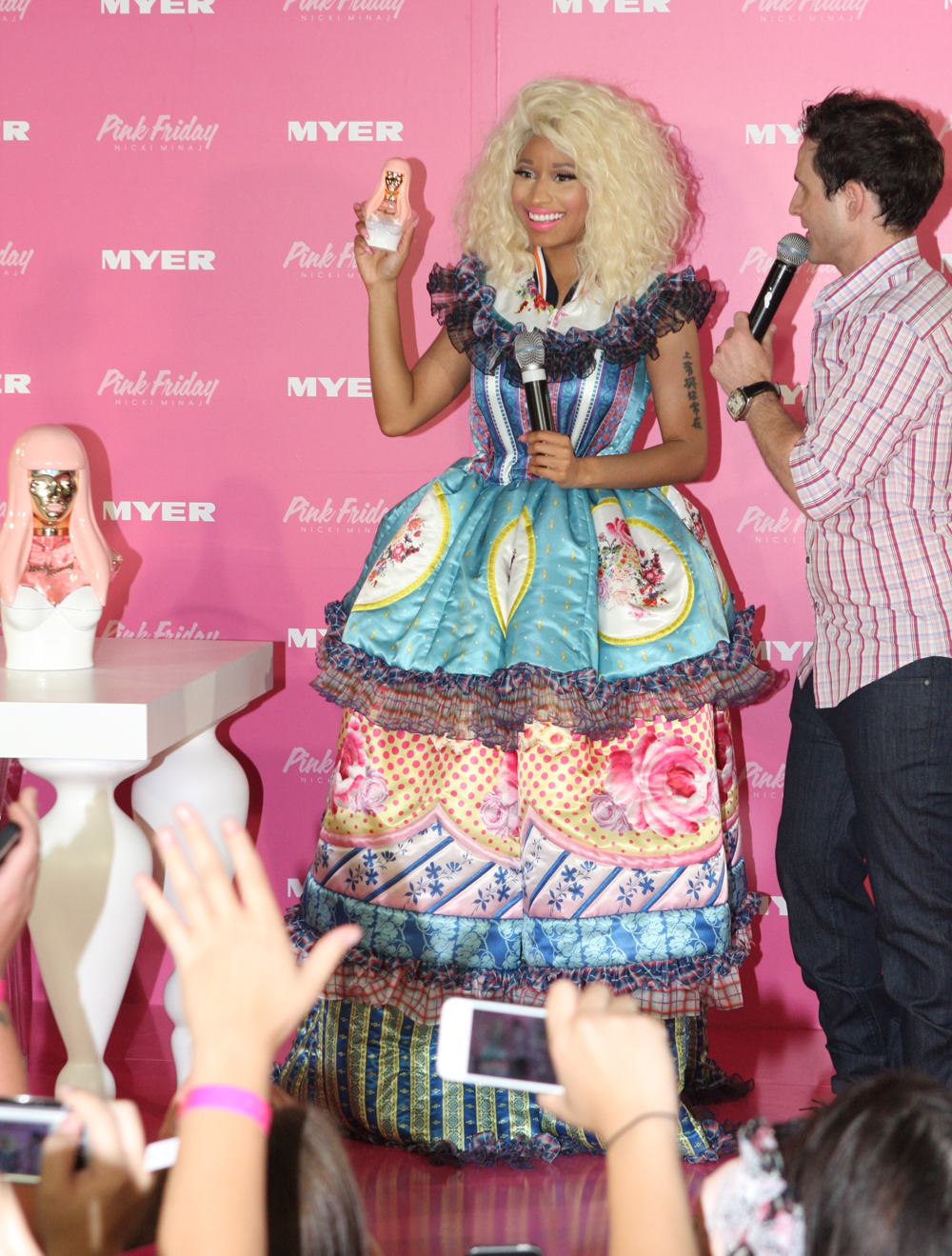 Friday (perfume)